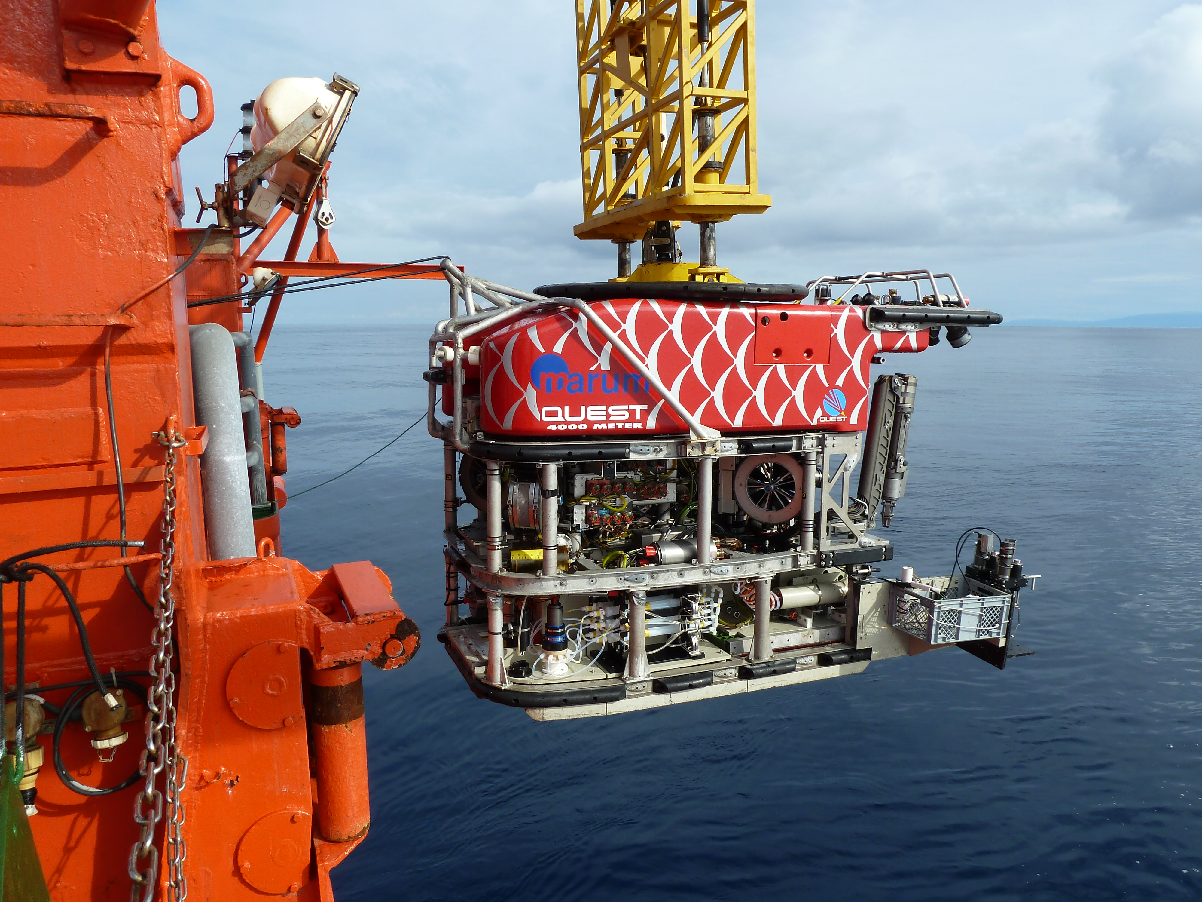 The submersible vehicle MARUM-QUEST is lowered into the water from the stern of the RV METEOR.